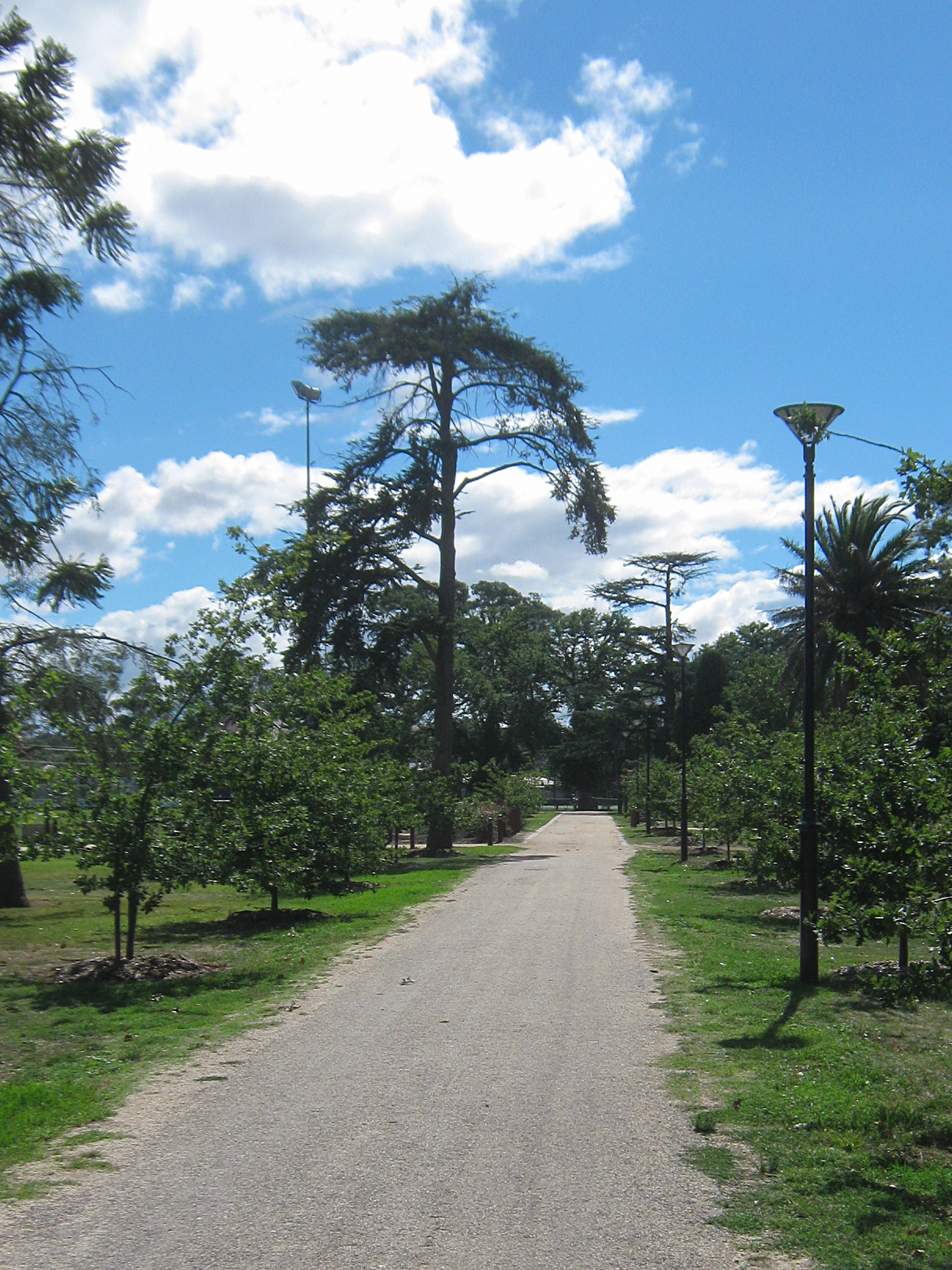 NW path from south gate of Maddingley Park, Bacchus Marsh, Victoria